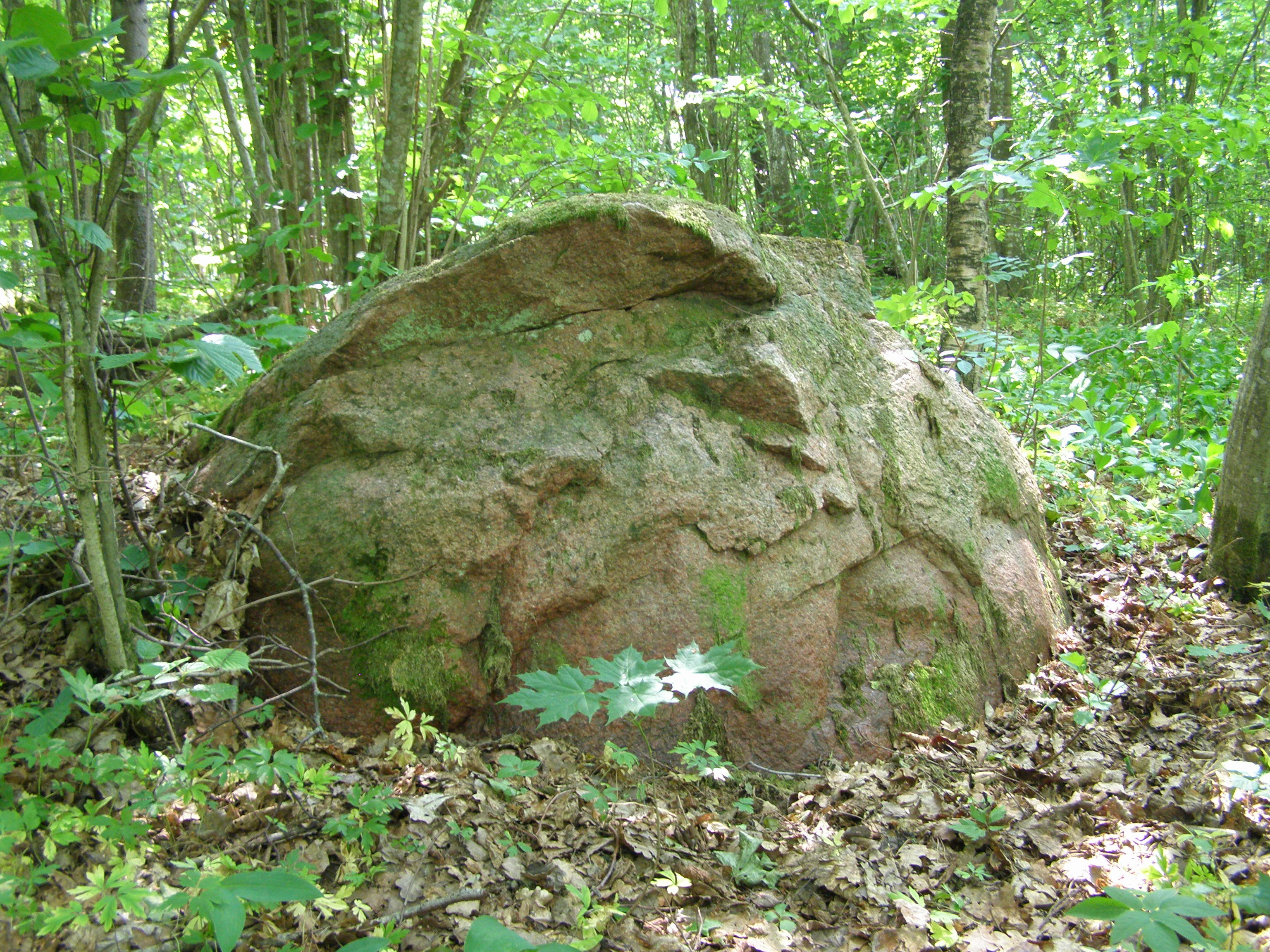 Benaičiai stone, Kretinga district, Lithuania